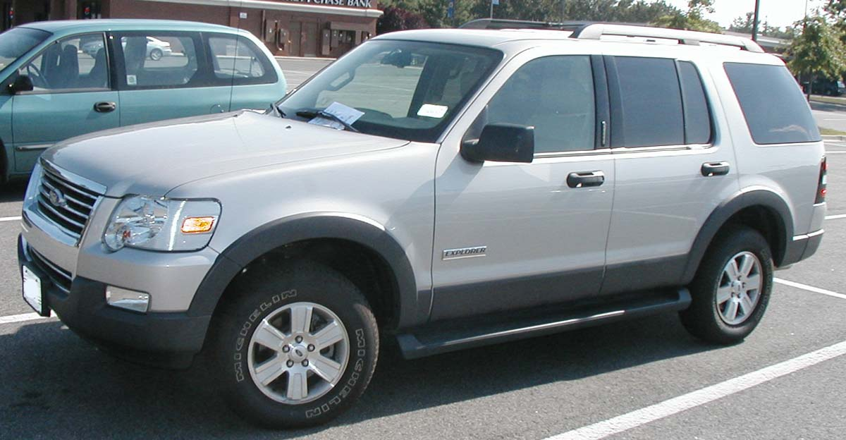 2006 Ford Explorer photographed in USA.